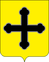 Bednodemianovsk (Penza oblast), coat of arms (2001)